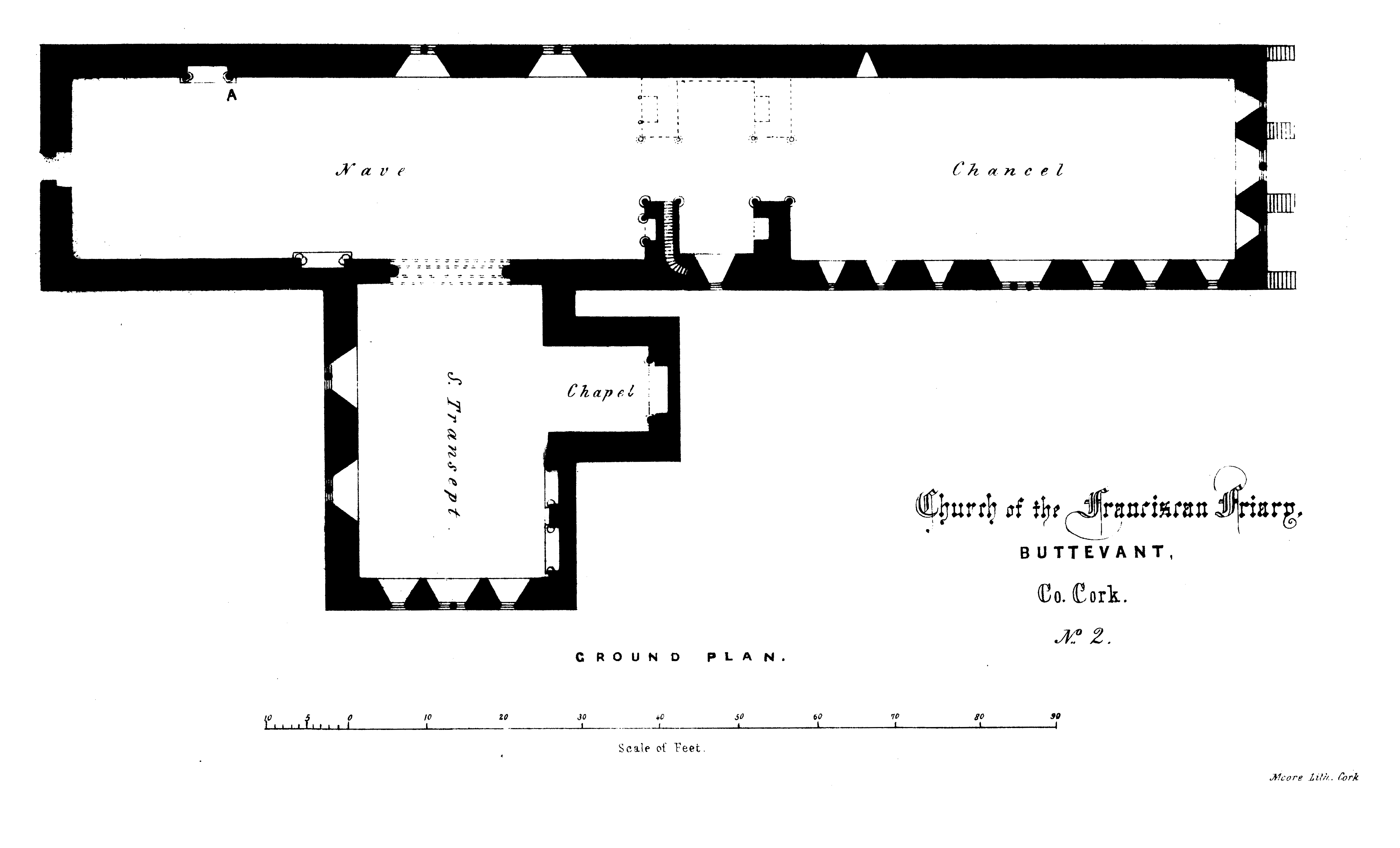 Ground plan of Buttevant Friary.